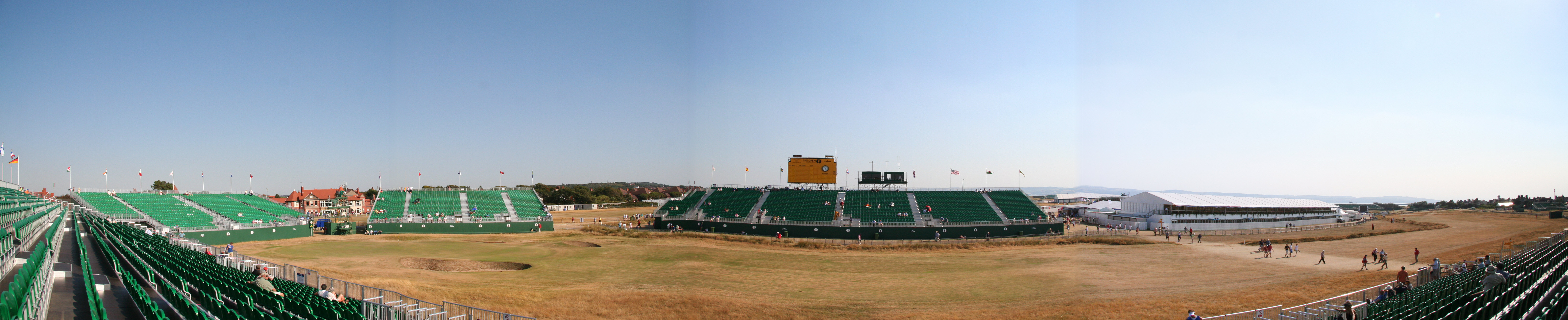 This is a panoramic image of the 18th at Royal Liverpool and Hoylake.